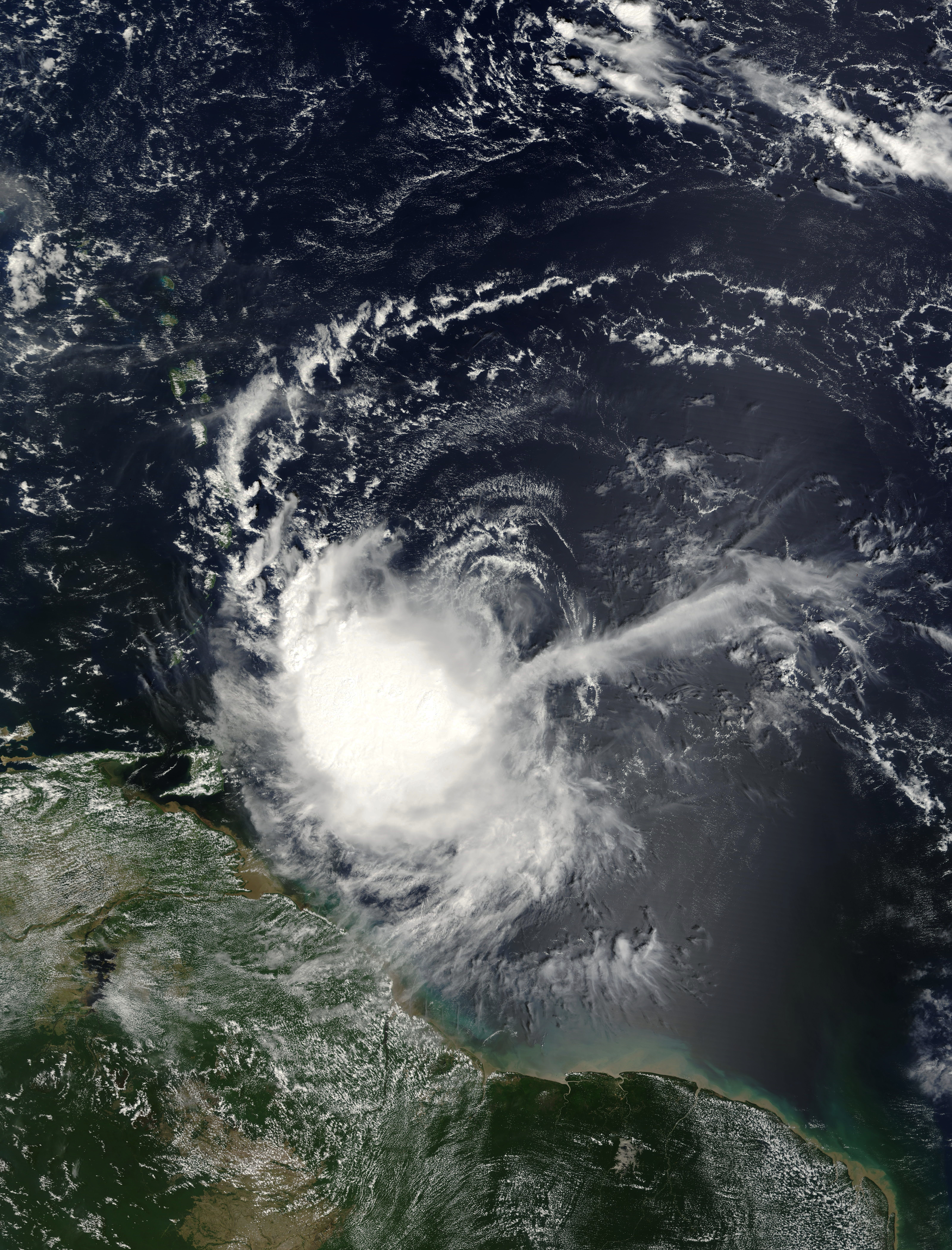 Tropical Storm Jerry on October 7, 2001